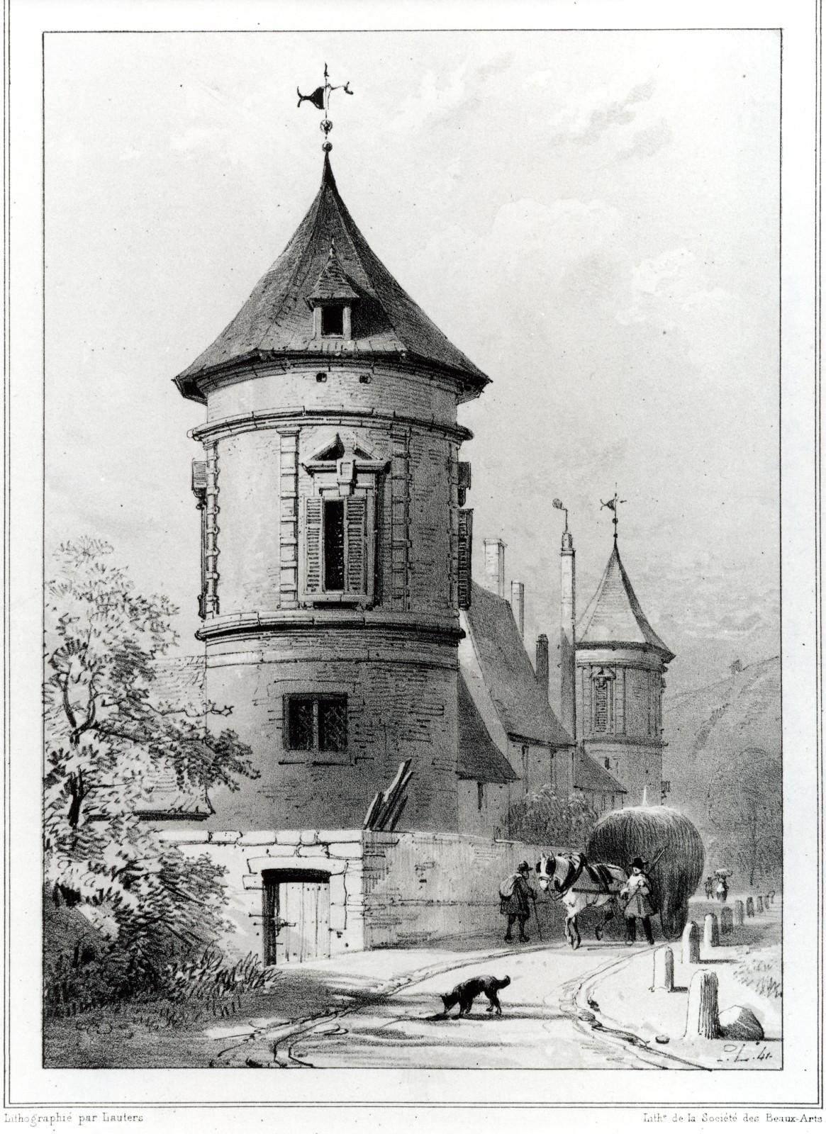 Château des Deux-Tours, by P. Lauters